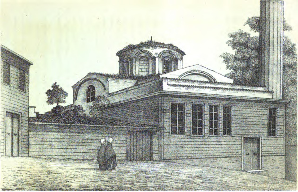 Byzantinai meletai topographikai (1877) Author: Paspatēs, Alexandros Geōrgiou, 1814-1891. [from old catalog] Subject: Inscriptions, Greek Year: 1877 Possible copyright status: NOT_IN_COPYRIGHT Language: English Digitizing sponsor: Google Book contributor: Oxford University Collection: europeanlibraries